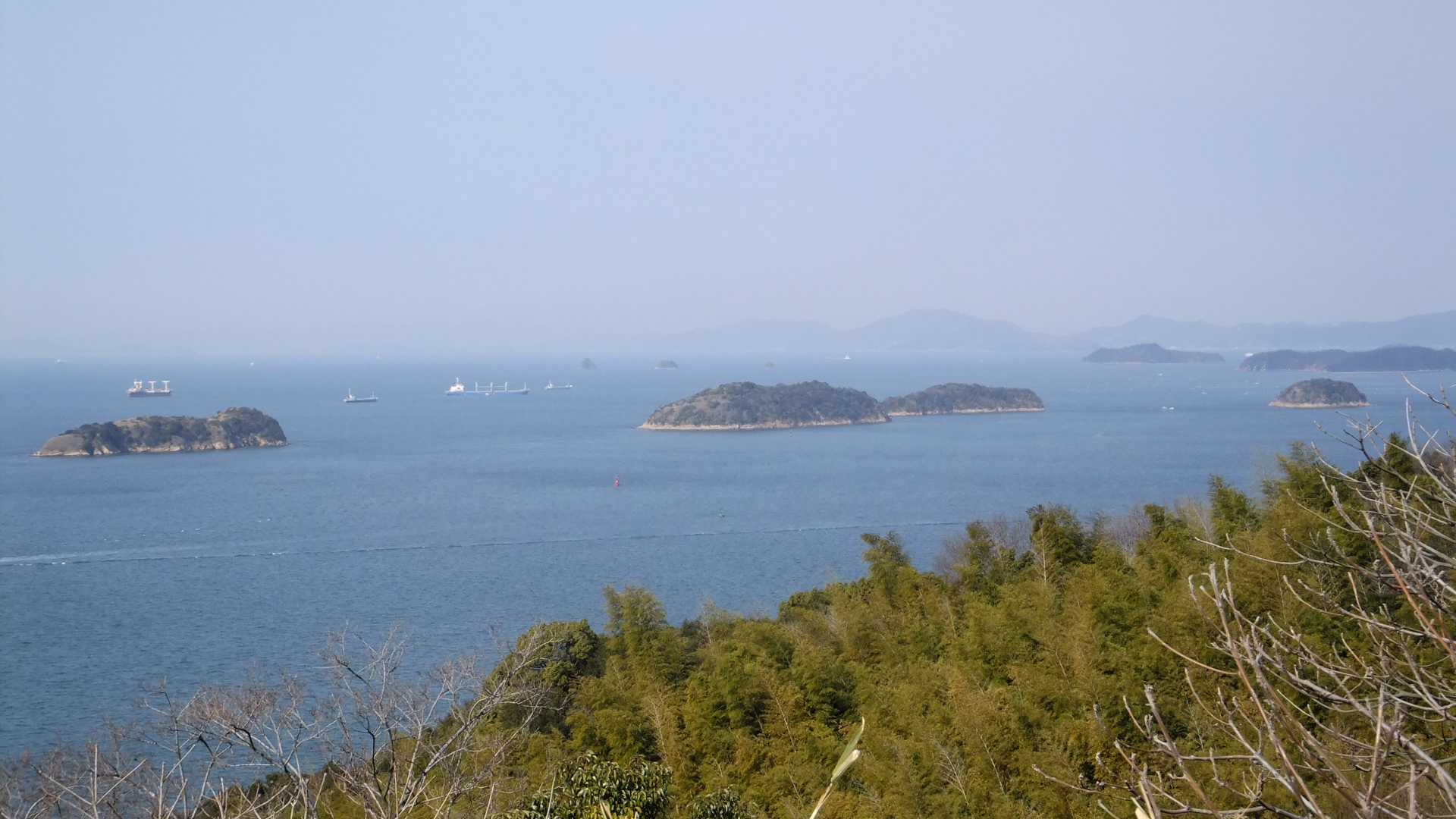 Mizushima Open sea seen from about Sanbyaku‐ yama mountain